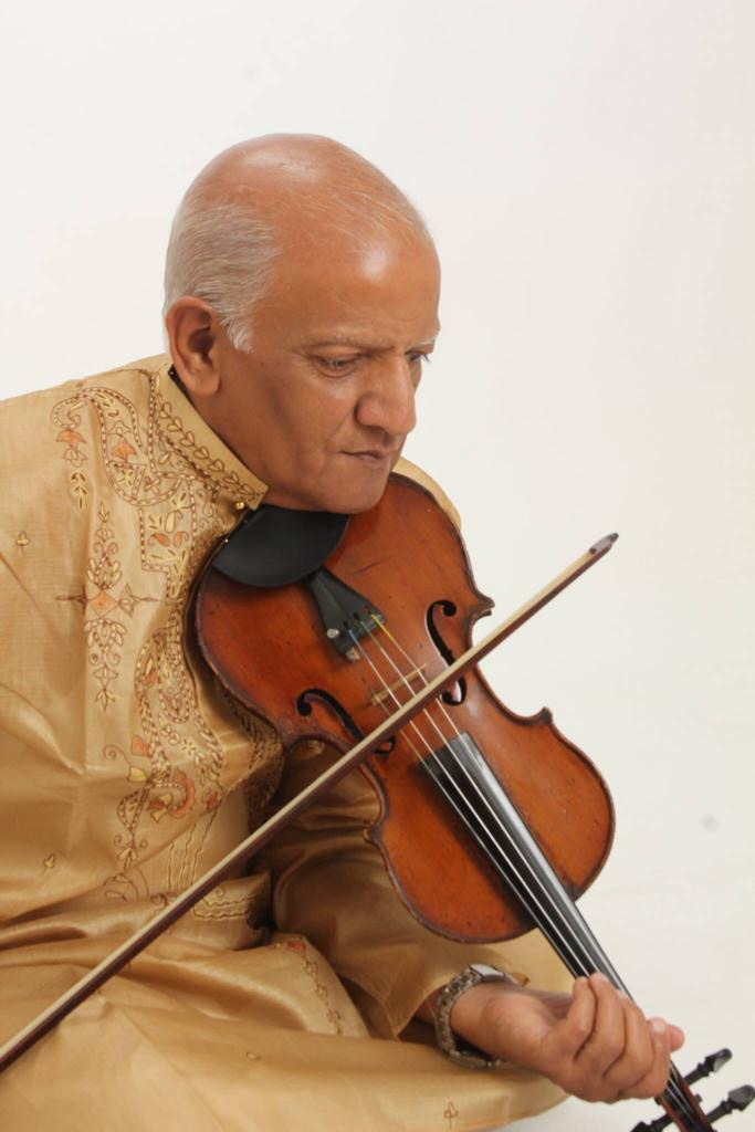 Profile picture of the musician and composer Dinesh Kumar Prabhakar